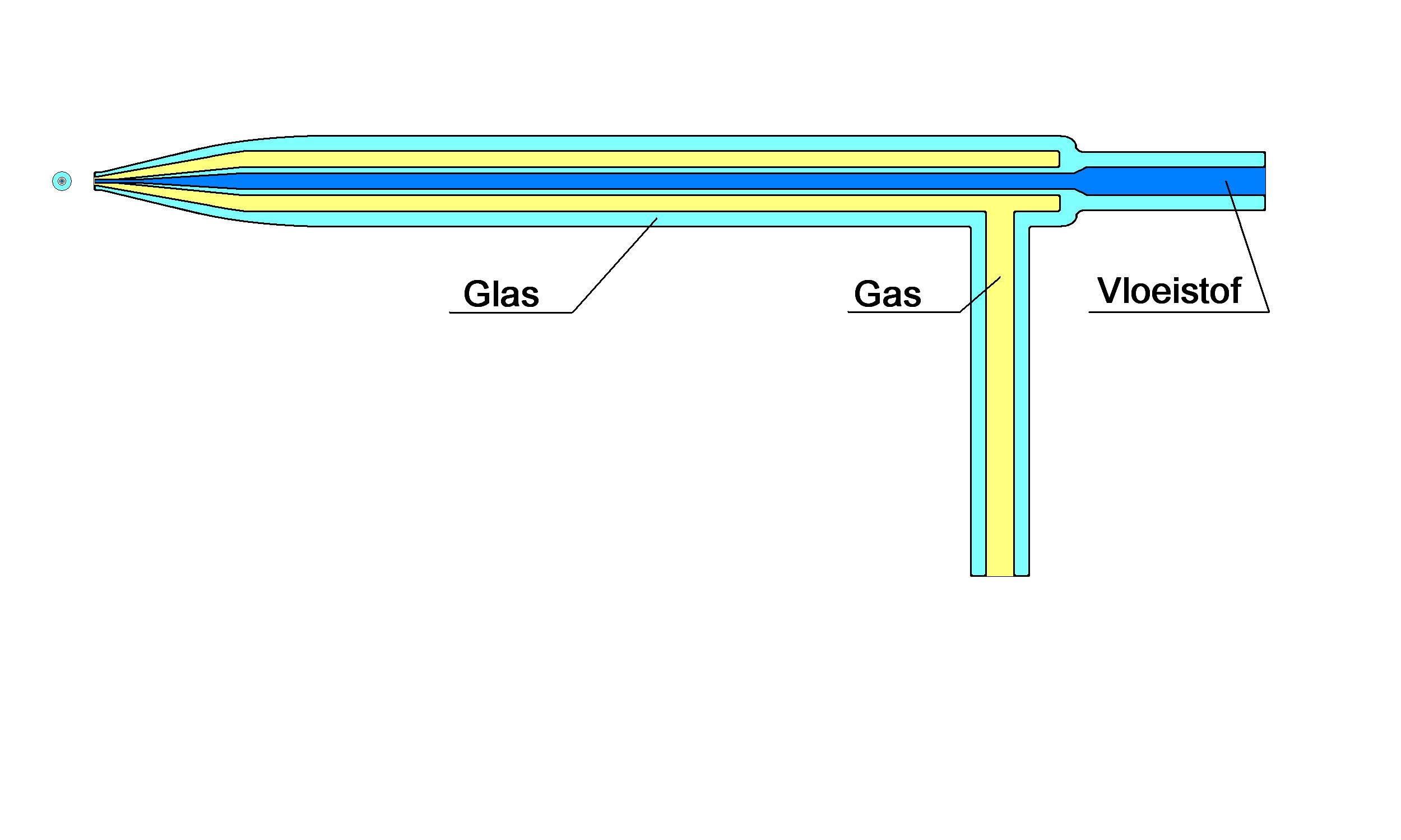 Concentric pneumatic nebuliser for Analytical work ( ICP and ICP-MS)